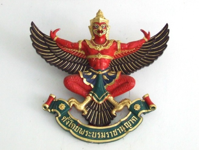 A sculpture of Garuda, at a branch of Siam Commercial Bank in Khon Kaen, that was given by the King of Thailand to reliable enterprises as royal warrant holders.